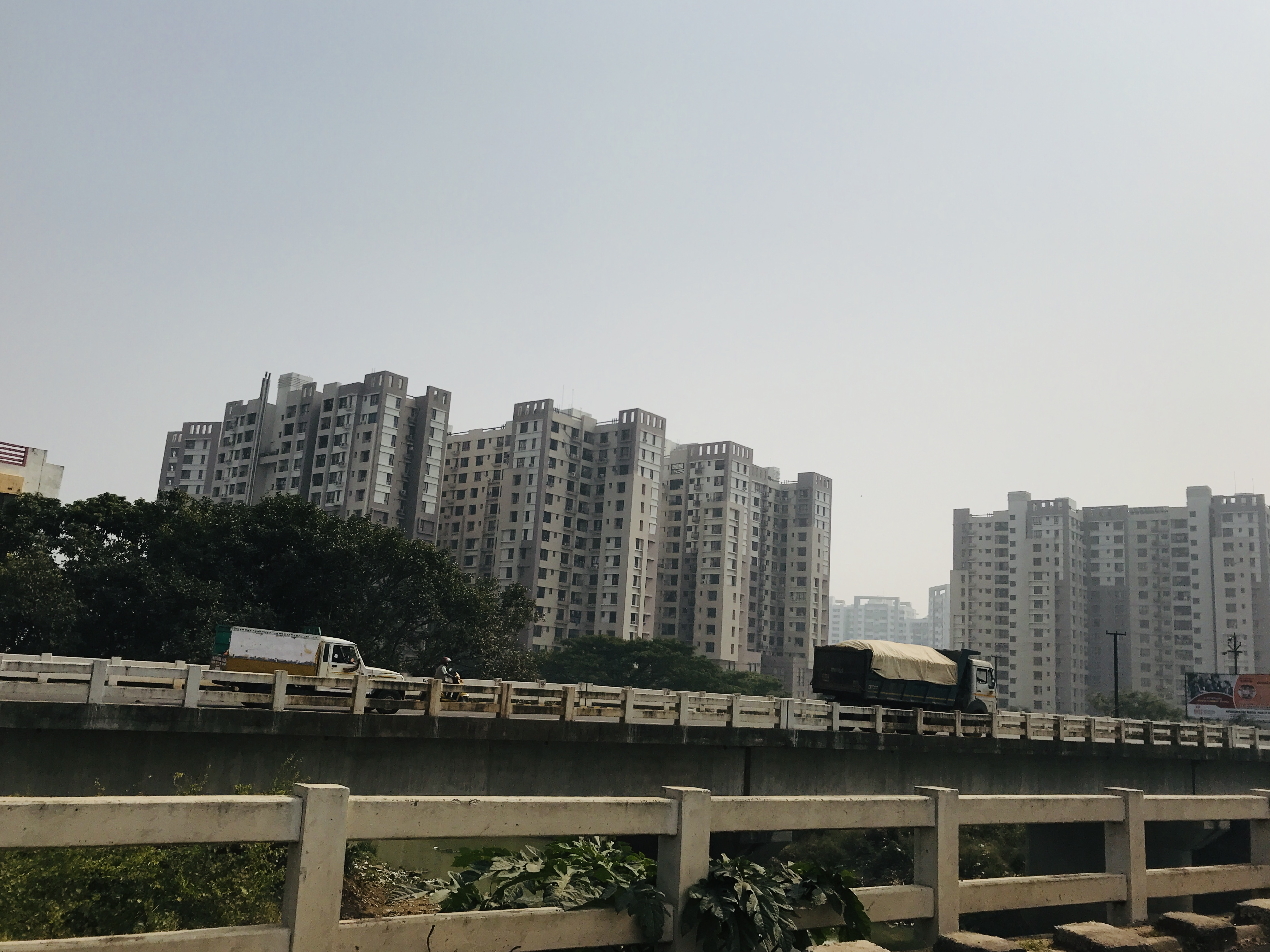 Nandan Kanan road, Bhubaneswar (January 2019)